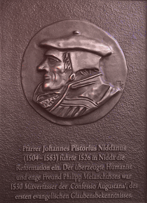 Table in memory of Johannes Pistorius the Elder at the Johannes-Pistorius-Haus in Nidda, Germany